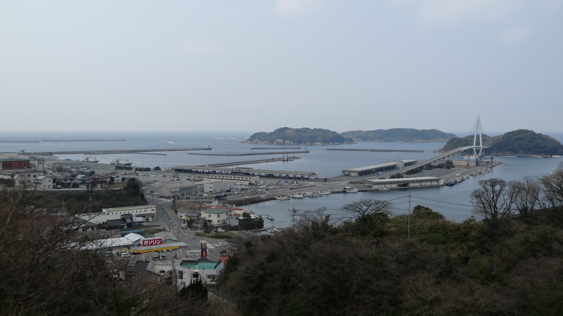 Hamada Port in Hamada City, Shimane Prefecture, Japan